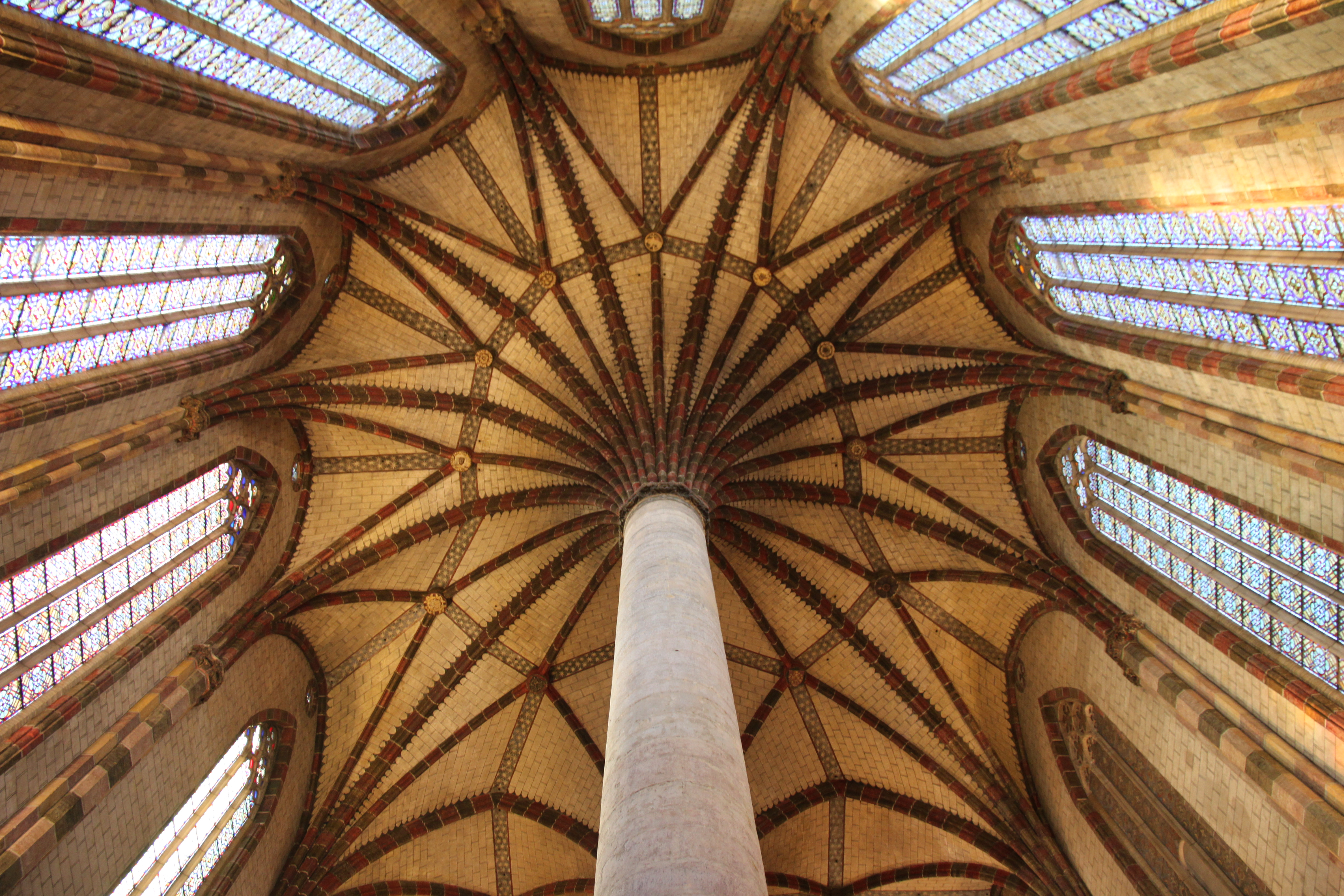 Palm tree vault of the Dominican church of the Jacobins in Toulouse (1275-1292), 28 metres high. With the exception of the shaft of the columns and the keystones, everything is in brick painted in fake white stone or fake red and green marble.